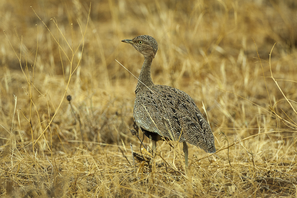 Buff-crested Bustard - Samburu - Kenya_NH8O7000